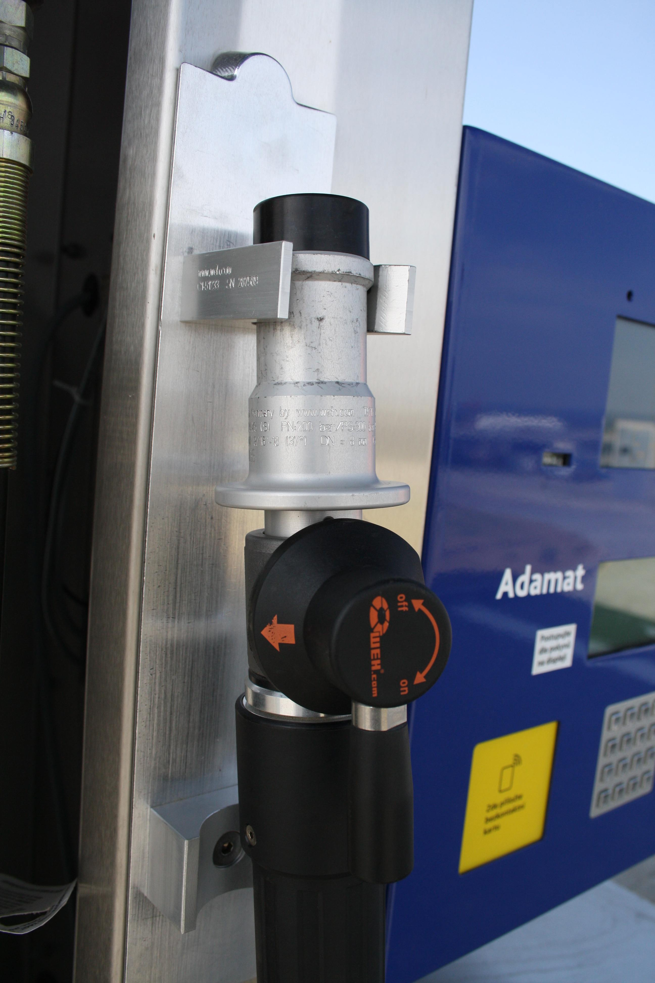 Detail of compressed natural gas in Třebíč, Czech Republic.